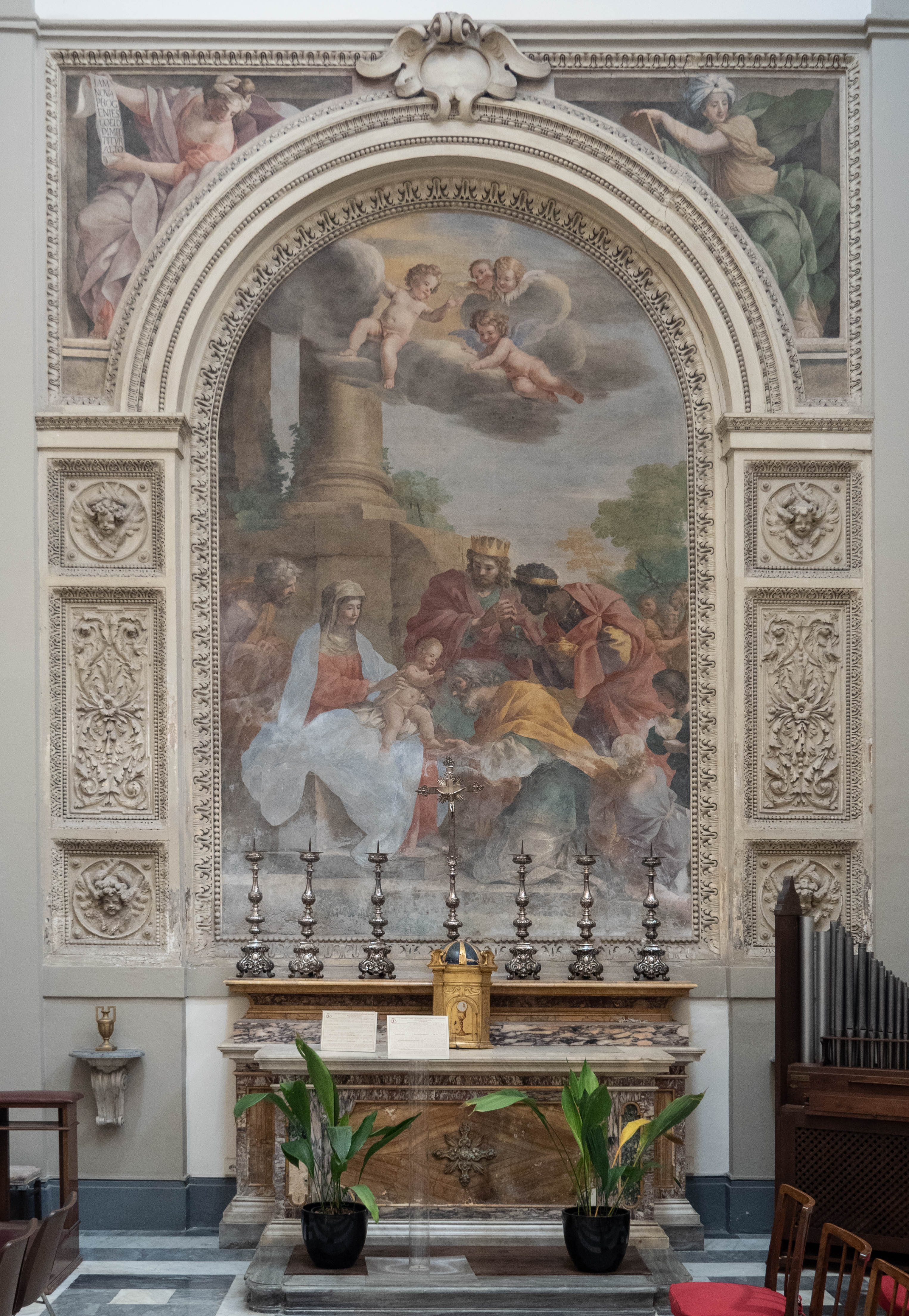 Altar, right in the church Sant' Eligio degli Orefici in Rome